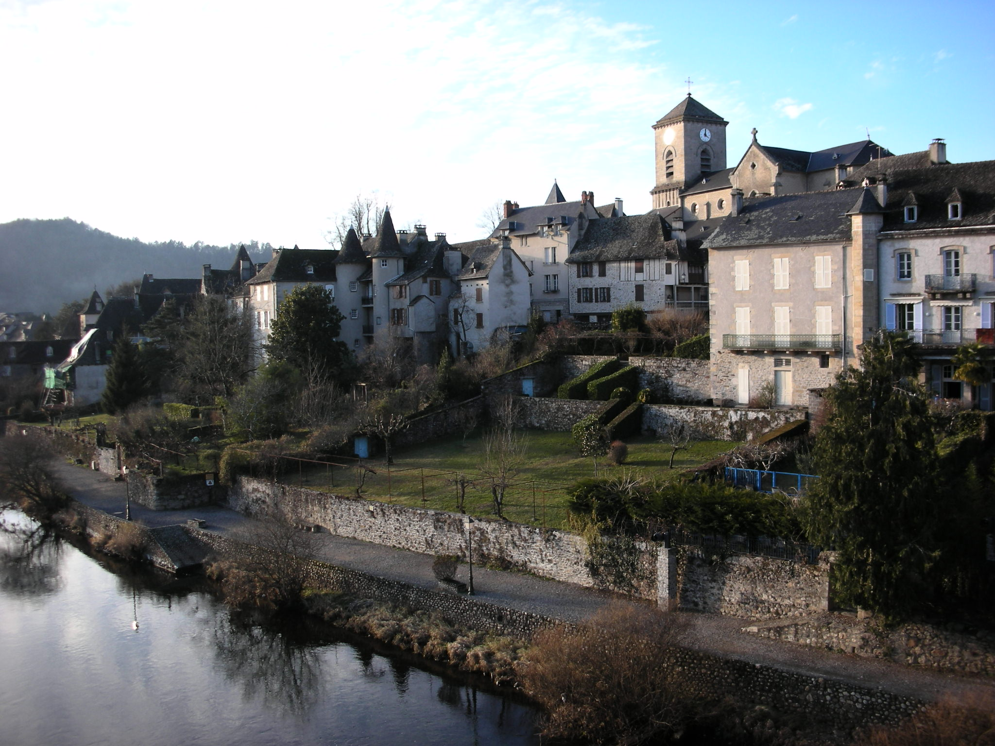 Argentat (French city)